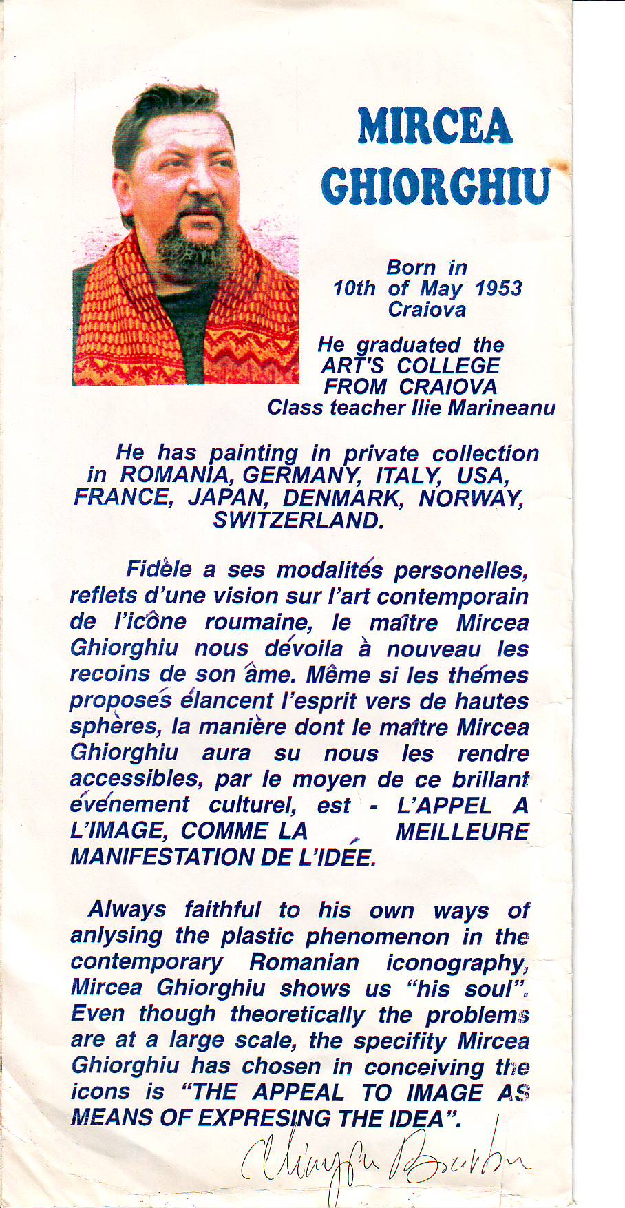 Folder pubicated for event - exhibition of icons on wood - Mircea Ghiorghiu